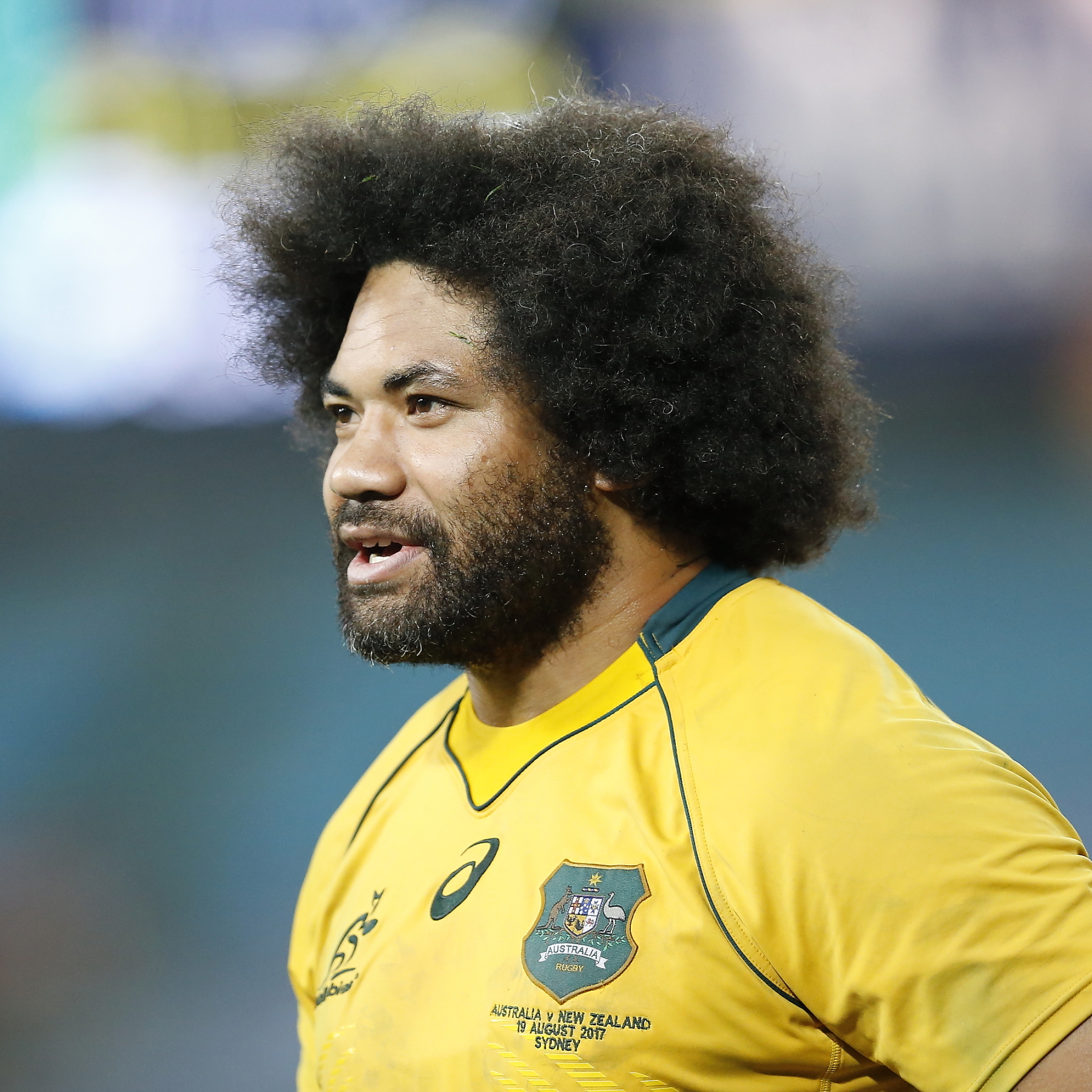 2017.08.19.22.06.38-Tatafu Polota-Nau 2017 Rugby Championship, Bledisloe 1, Australia vs New Zealand, 19th August, ANZ Stadium, Sydney